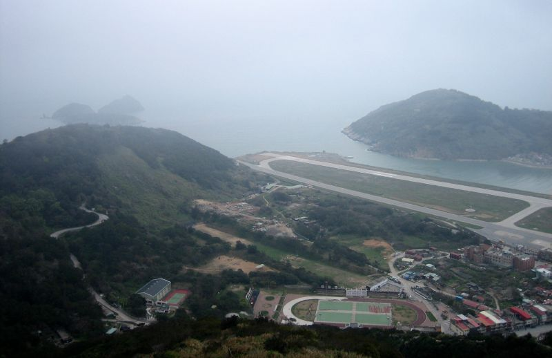 Matsu Beigan airport as seen from Bishan Lookout.中文（台灣）: 從璧山俯瞰馬祖北竿機場